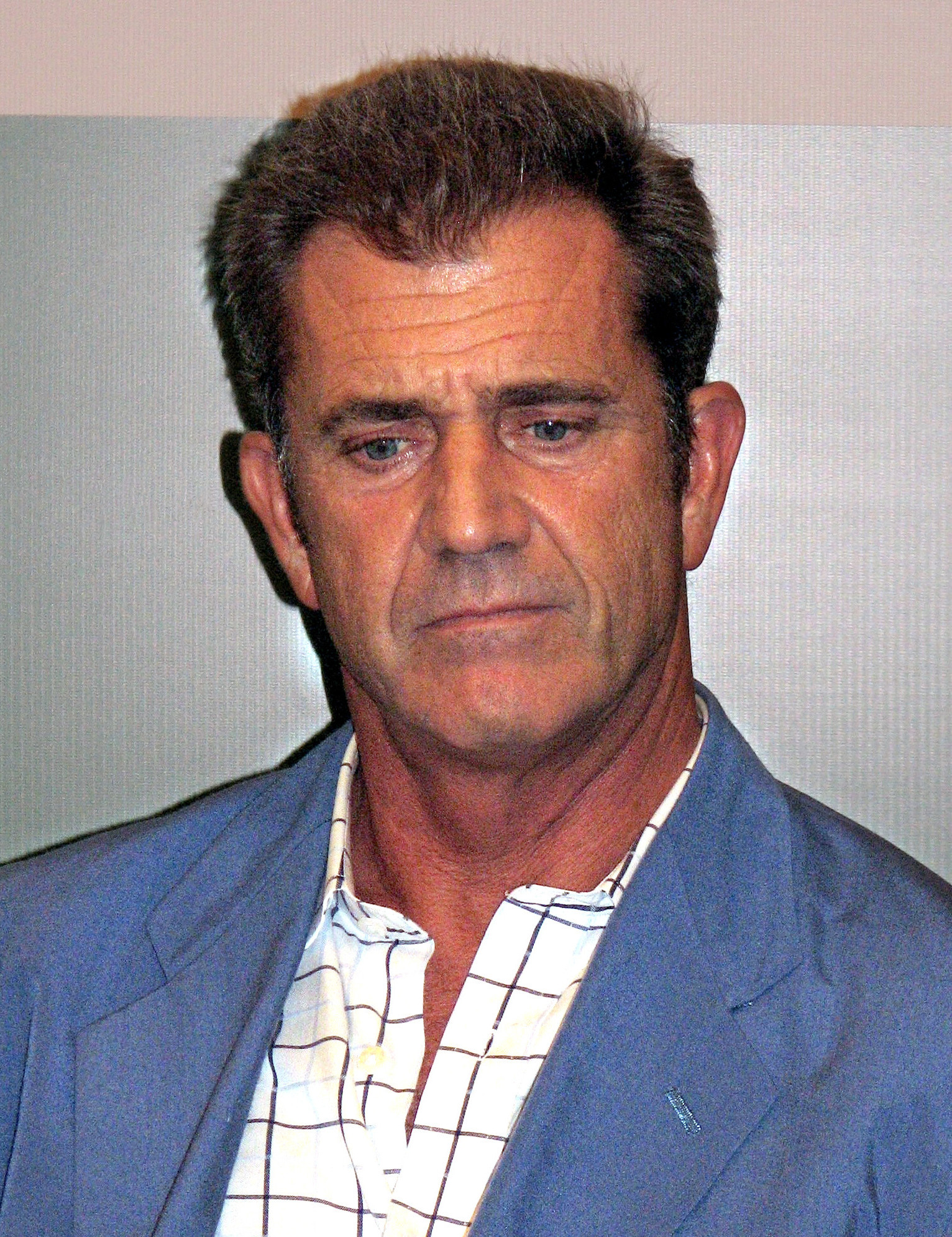 Mel Gibson at a Press Conference at the Ritz Carlton in Singapore. Sep 11, 2007